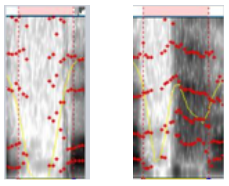 plosive feature